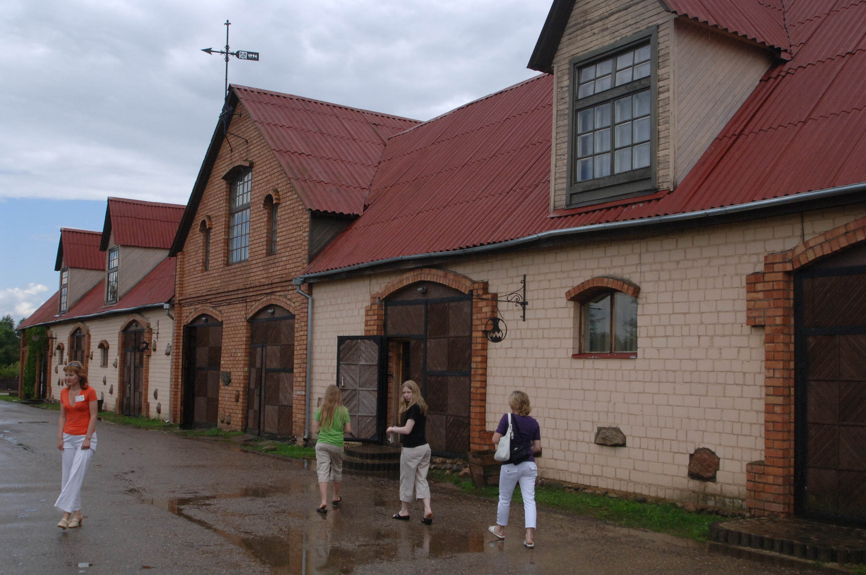 OPEN AIR VILLAGE - 19TH CENTURY BELARUSSIAN COUNTRY LIFE. LOCATED OUTSIDE OF MINSK, THE CAPITAL OF BELARUS